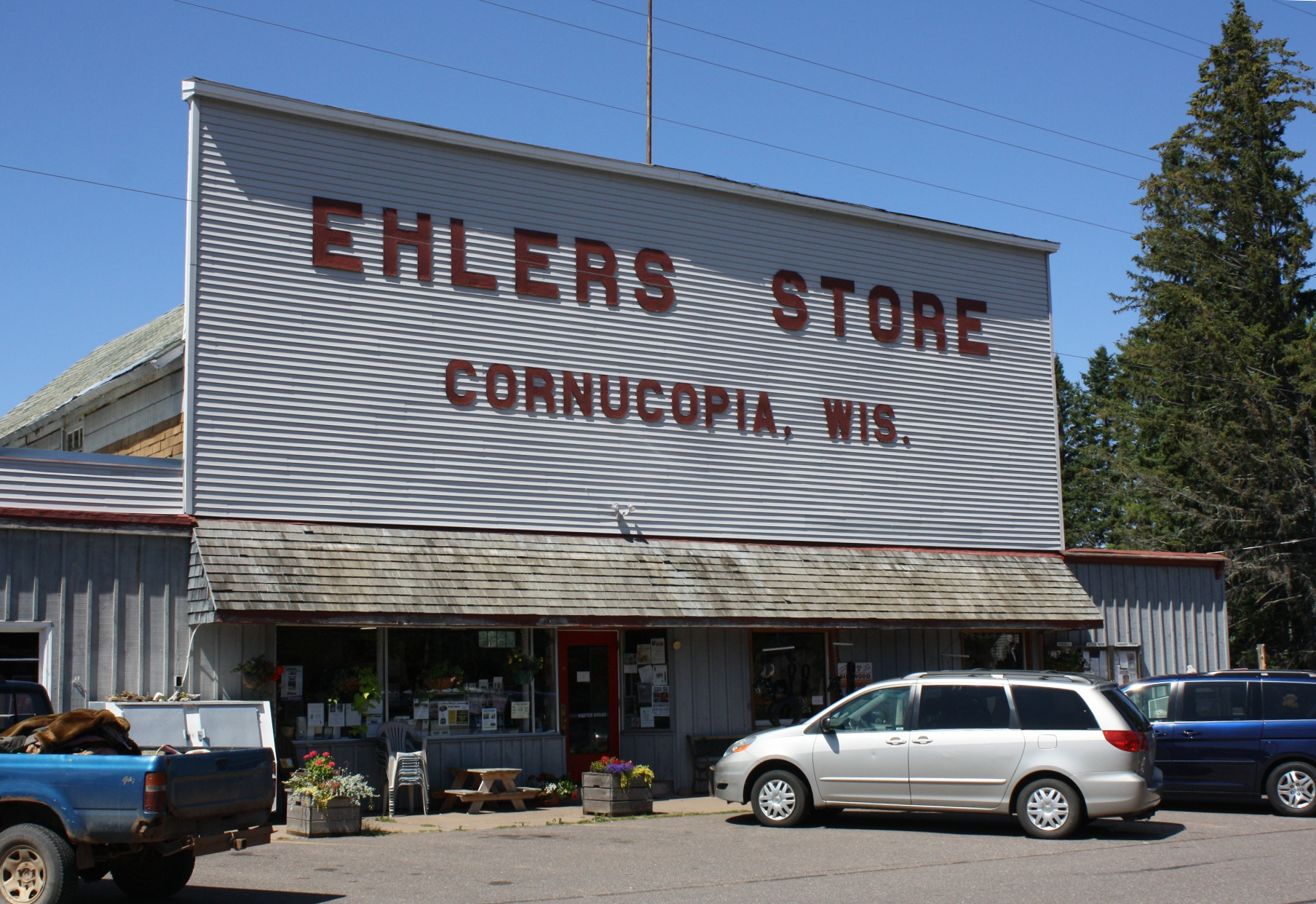 Ehlers Store in Cornocopia, Wisconsin.